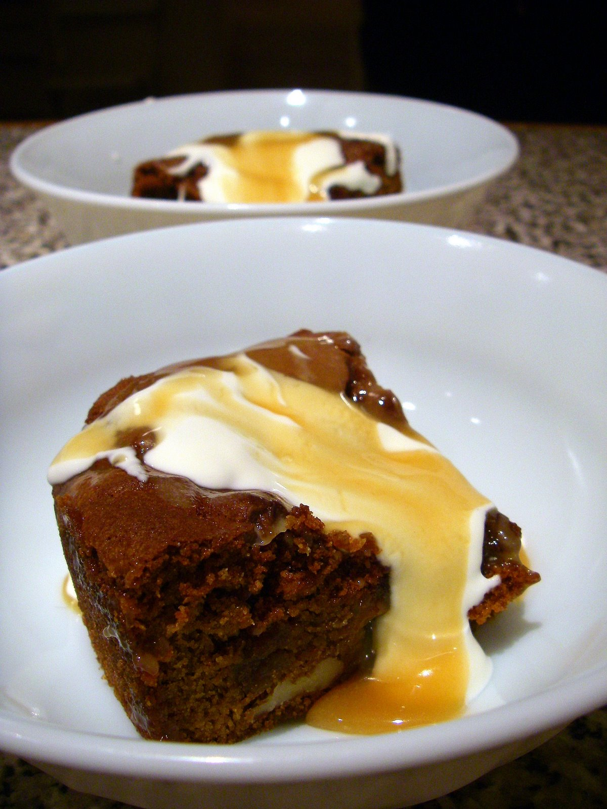 Sticky toffee pudding